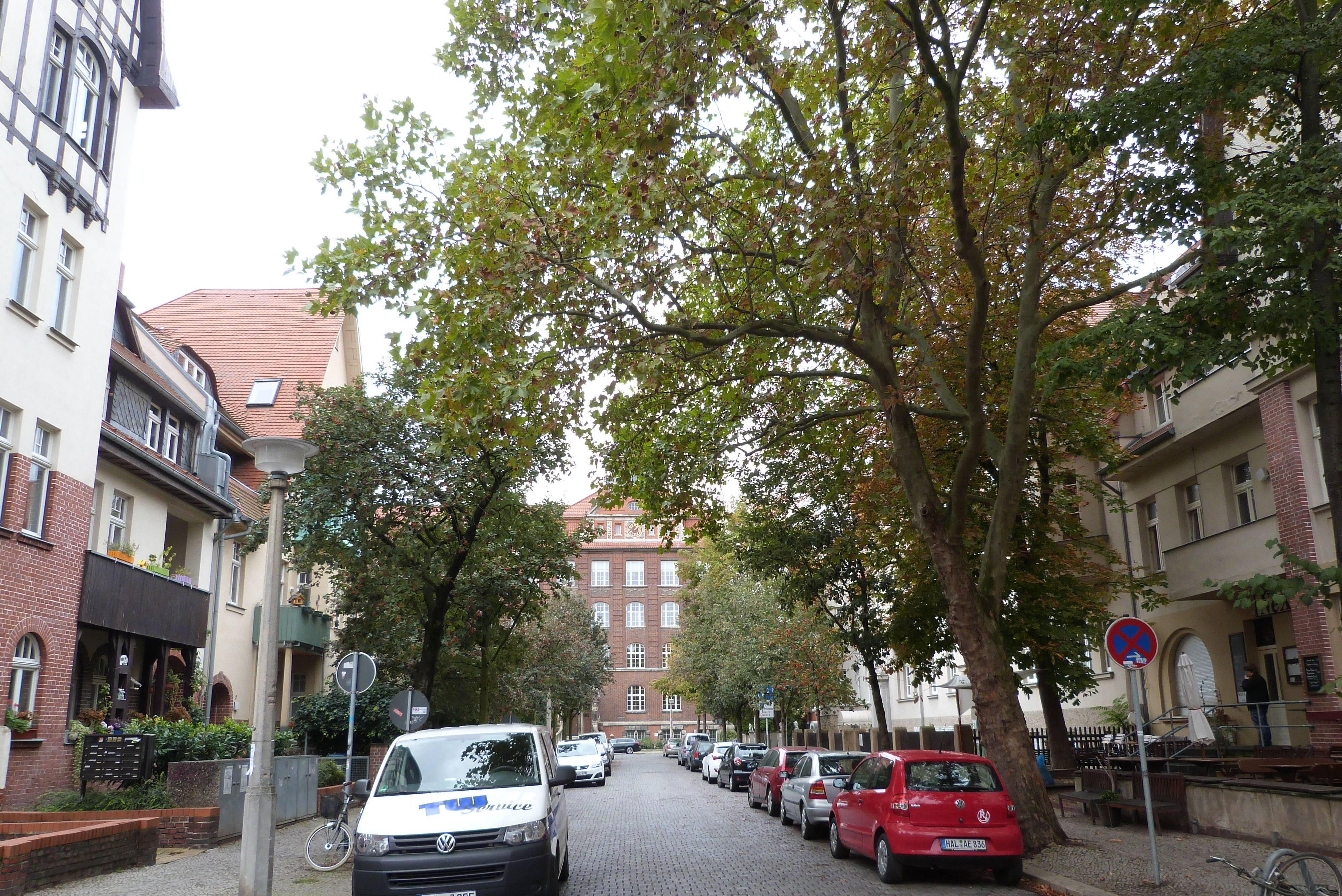 Street Kohlschütterstraße in Halle (Saale), view to the Reil school